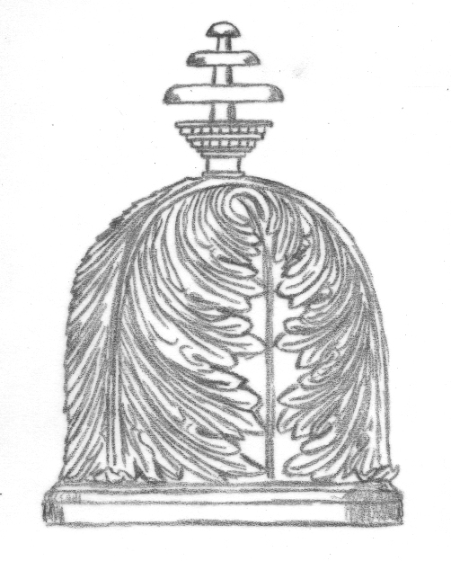 Stupa decorated with Acanthus leaves. Sirkap, Pakistan, 3rd stratum, 1st century BCE